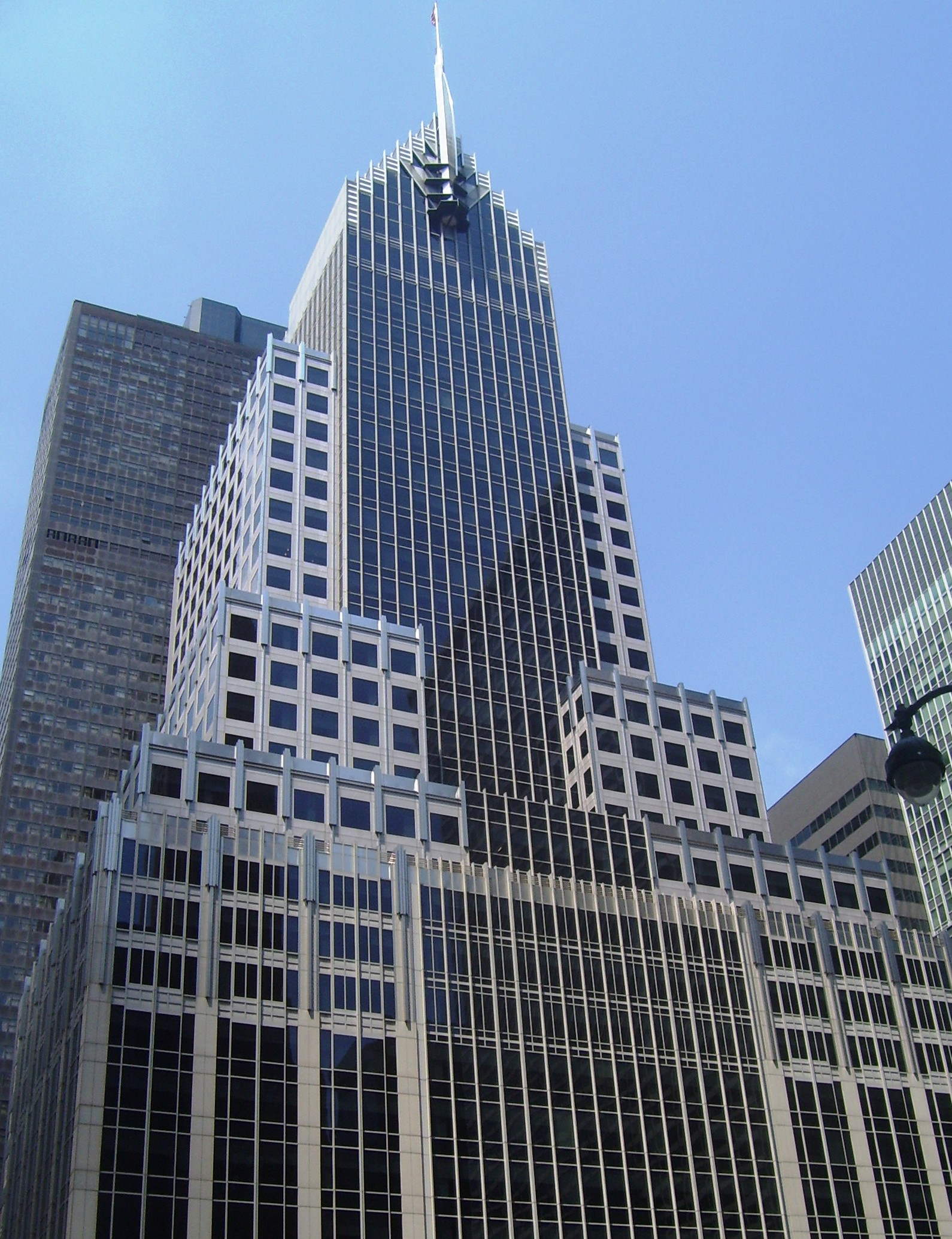 The Mutual of America Building – also known as the ITT Building – located at 320 Park Avenue between East 51st and East 52nd Streets in Midtown Manhattan, New York City was built in 1958-60 and was designed by Emery Roth & Sons and Swanke Hayden Connell. It has 34 floors and is 476 feet tall. (Source: [1])